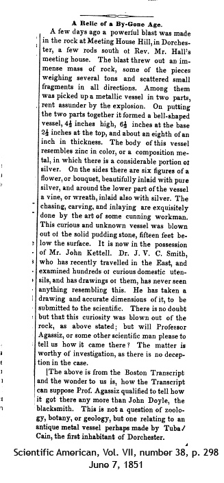 Scientific American (magazine), vol. VII, number 38, June 7, 1851. Corner of page 298.